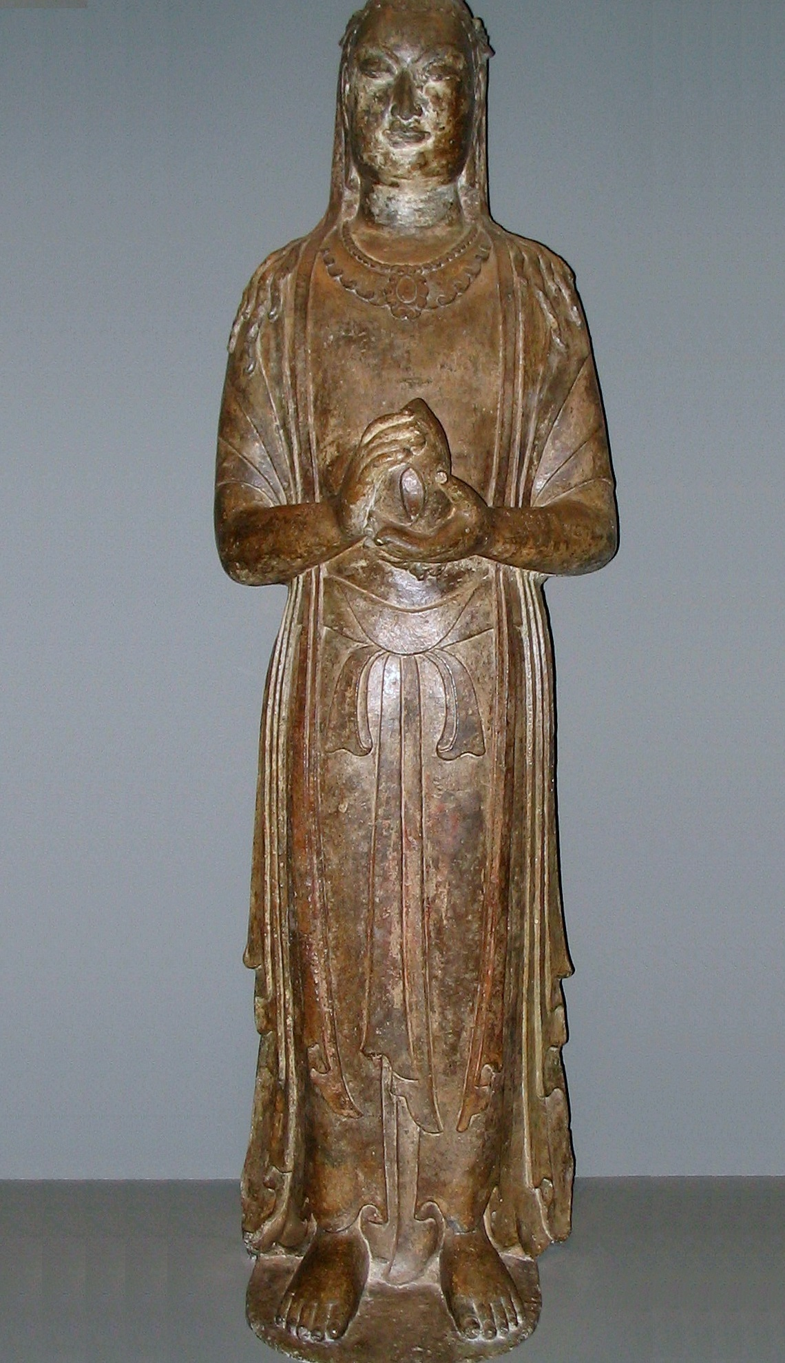 Limestone statue of a Boddhisattva created in the Northern Qi Dynasty of northern China.